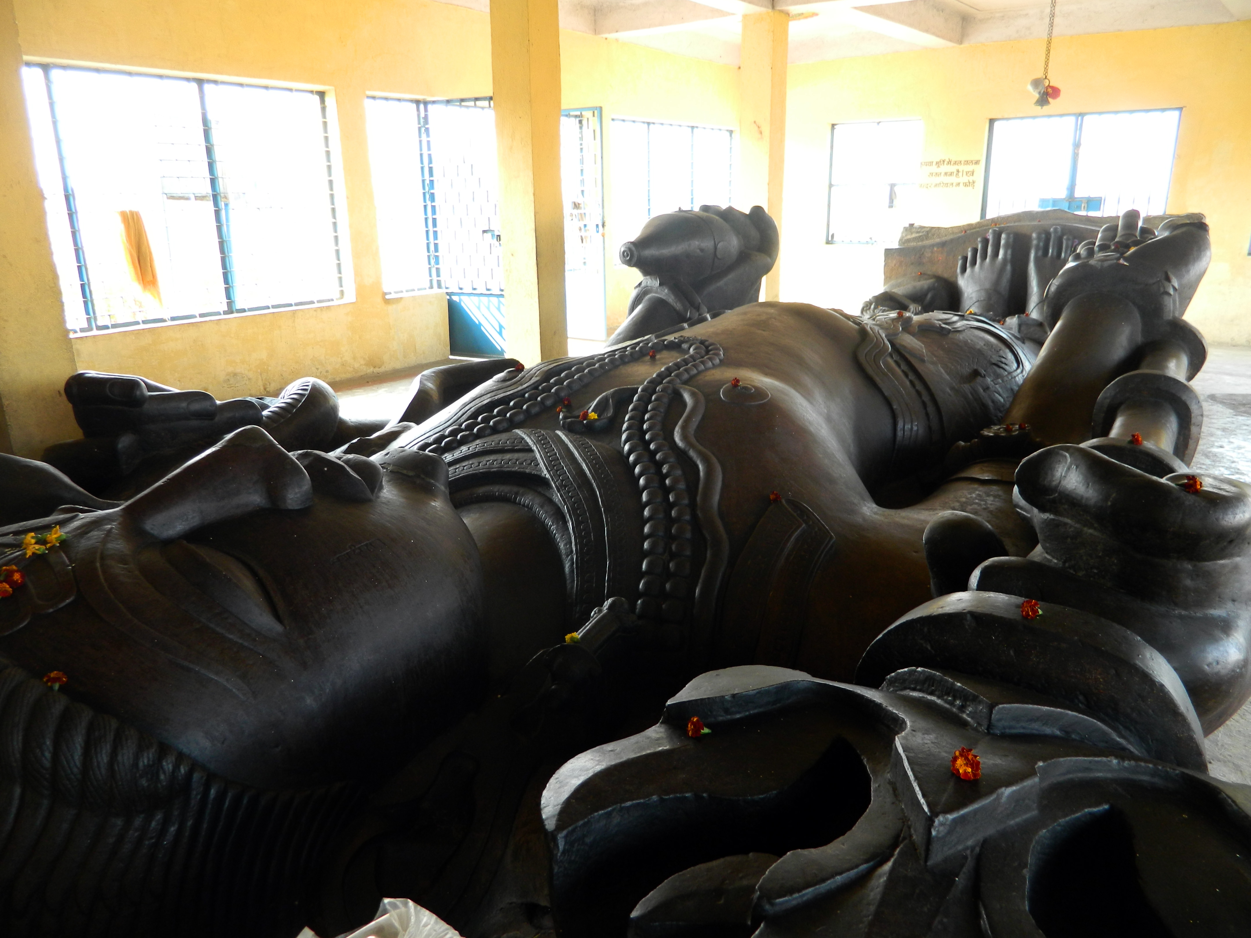 Image of Bhairav